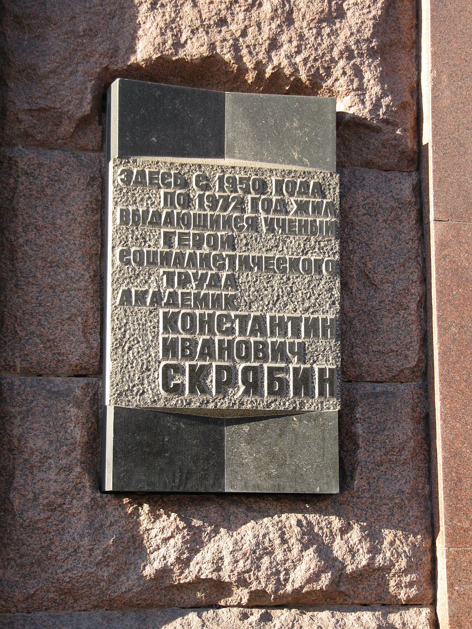 Here lived a Soviet scientist Constantin Skryabin, biologist, founder of the domestic helminthological science. Moscow, Tverskaya str.,9